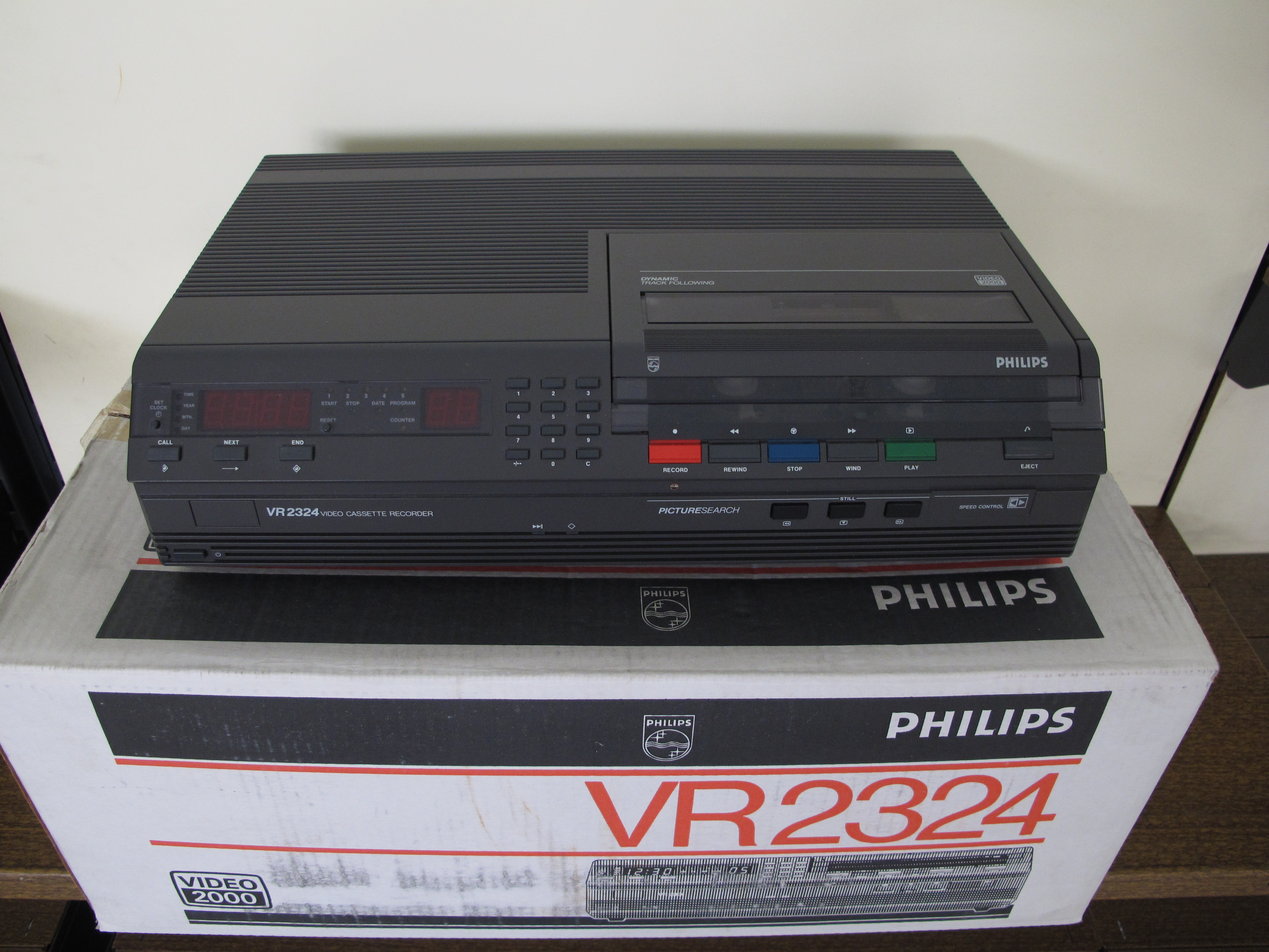 Video 2000 Recorders VR 2324